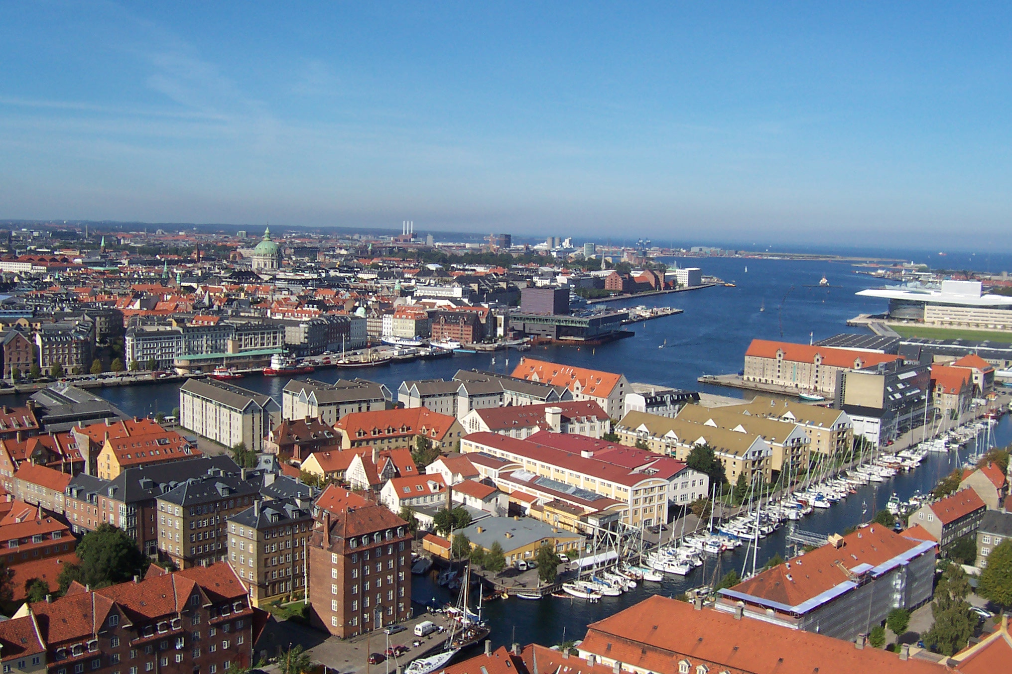 Copenaghen